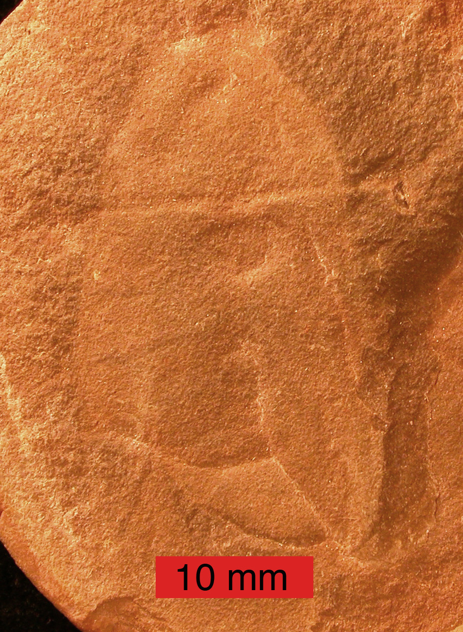 Tullimonstrum gregarium in a concretion from the Mazon Creek (Upper Carboniferous), Illinois.